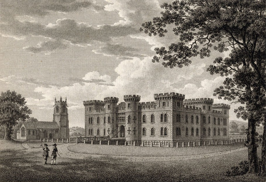 Enmore Castle, Somerset, England, plate LIV from The seats of the Nobility and Gentry. In a Collection of the most interesting & picturesque views, by W. Watts, published in Chelsea, 1779.